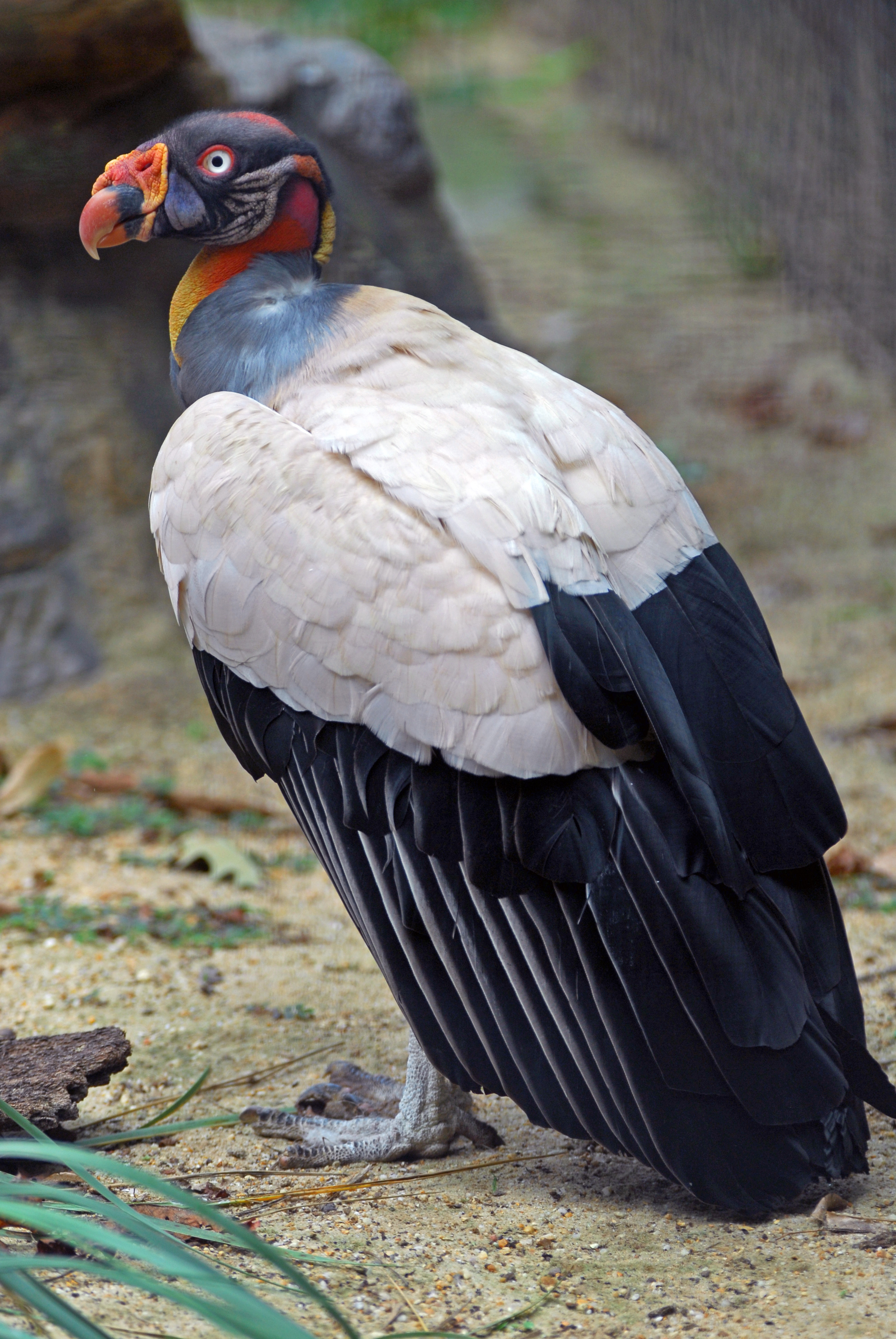 A King Vultures at Smithsonian National Zoological Park, Washington DC, USA.